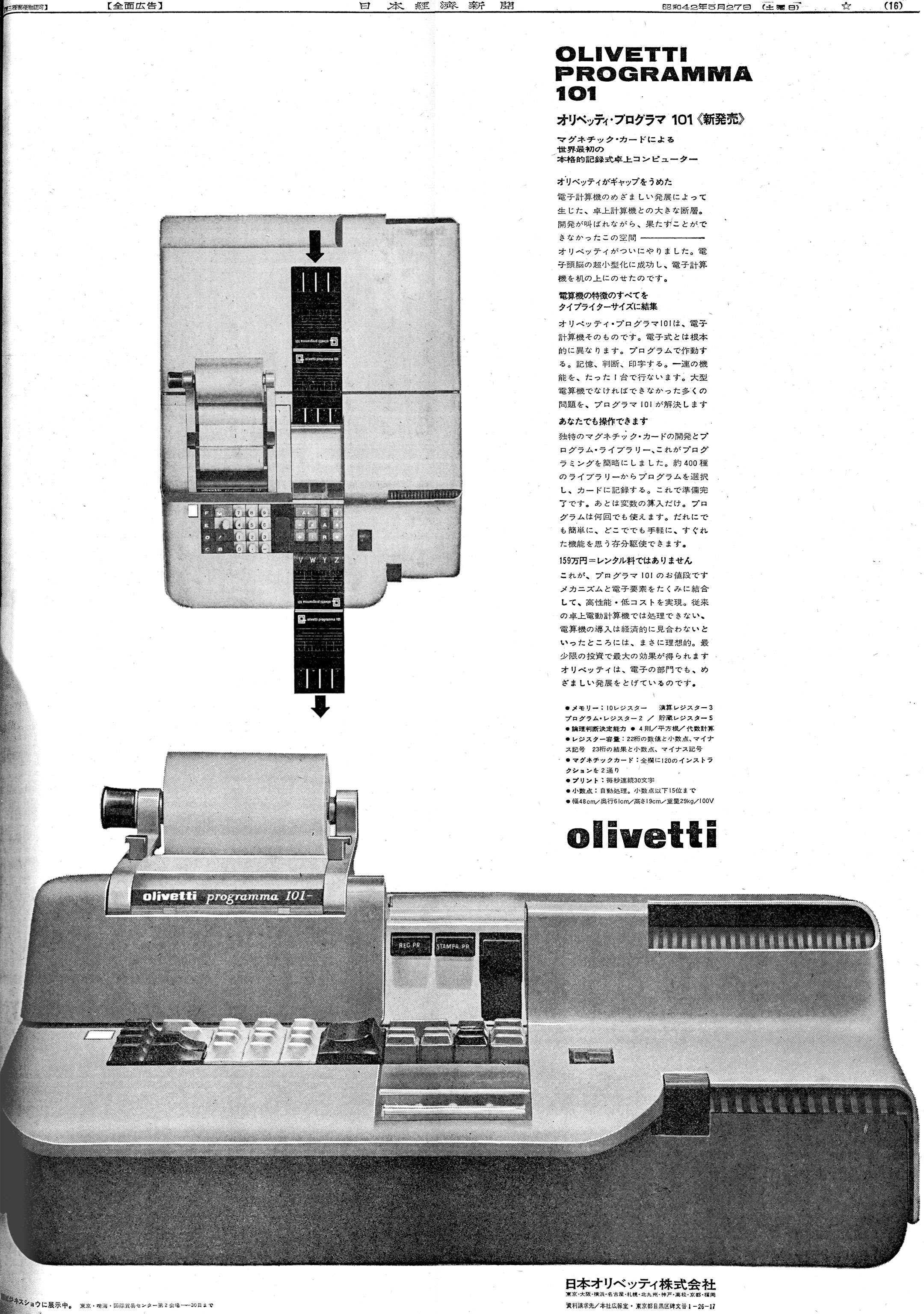 Japanese advertisement of Olivetti Programma 101